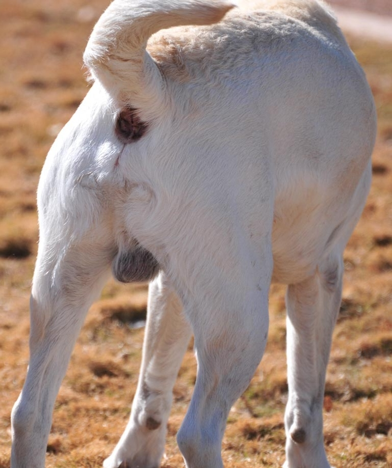 Anus and scrotum of male Labrador Retriever